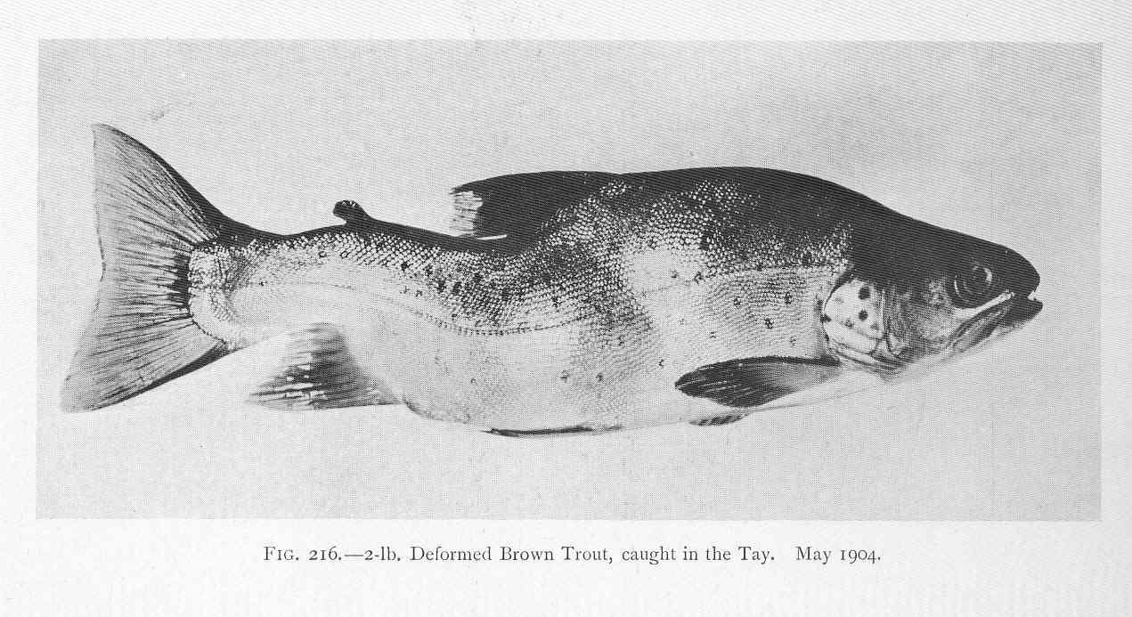 2-lb. Deformed Brown Trout, caught in the Tay. May 1904 Subject: Brown trout, Fishes--Diseases Tag: Fish